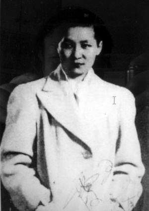 Ng Kam-ha's photo with her signature on it.